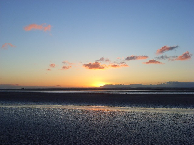 The tidal Eden, Burgh Marsh The river enters the Solway Firth, passing through extensive sandbanks and mudflats.